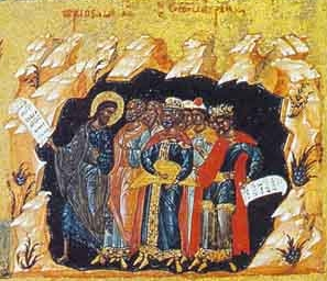 Russian icon with 5 themes. Fragment: Adam, Eva and others follows Jesus from Hell to Heaven; Пятичастная икона, фрагмент. Шествие праведников в Рай